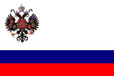 Nakhodka Harbour factories flag,1869-1873